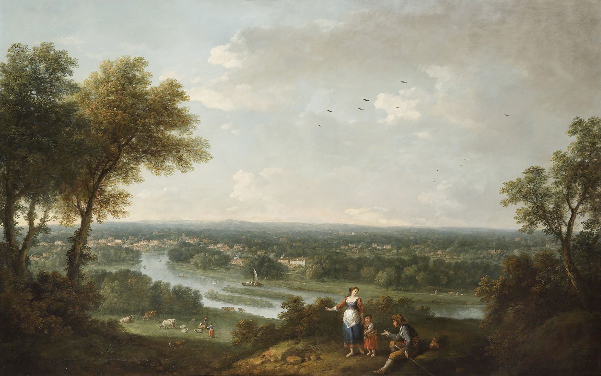 A view of the River Thames from Richmond Hill, oil on canvas, 31½ x 48¼ in. (80 x 122.6 cm.)